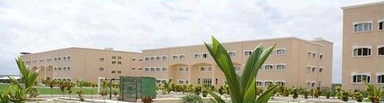 Mogadishu University Soomaaliga: Jaamacada Muqdisho